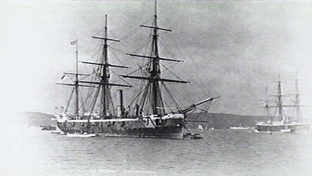 AWM caption : "SYDNEY, NSW. C.1888. STARBOARD BOW VIEW OF THE SCREW CORVETTE HMS RAPID MOORED IN FARM COVE. NOTE THE EMBRASURE FORWARD FOR HER 6 INCH CHASE GUN. IN THE BACKGROUND IS THE FLAGSHIP, THE ARMOURED CRUISER HMS NELSON."